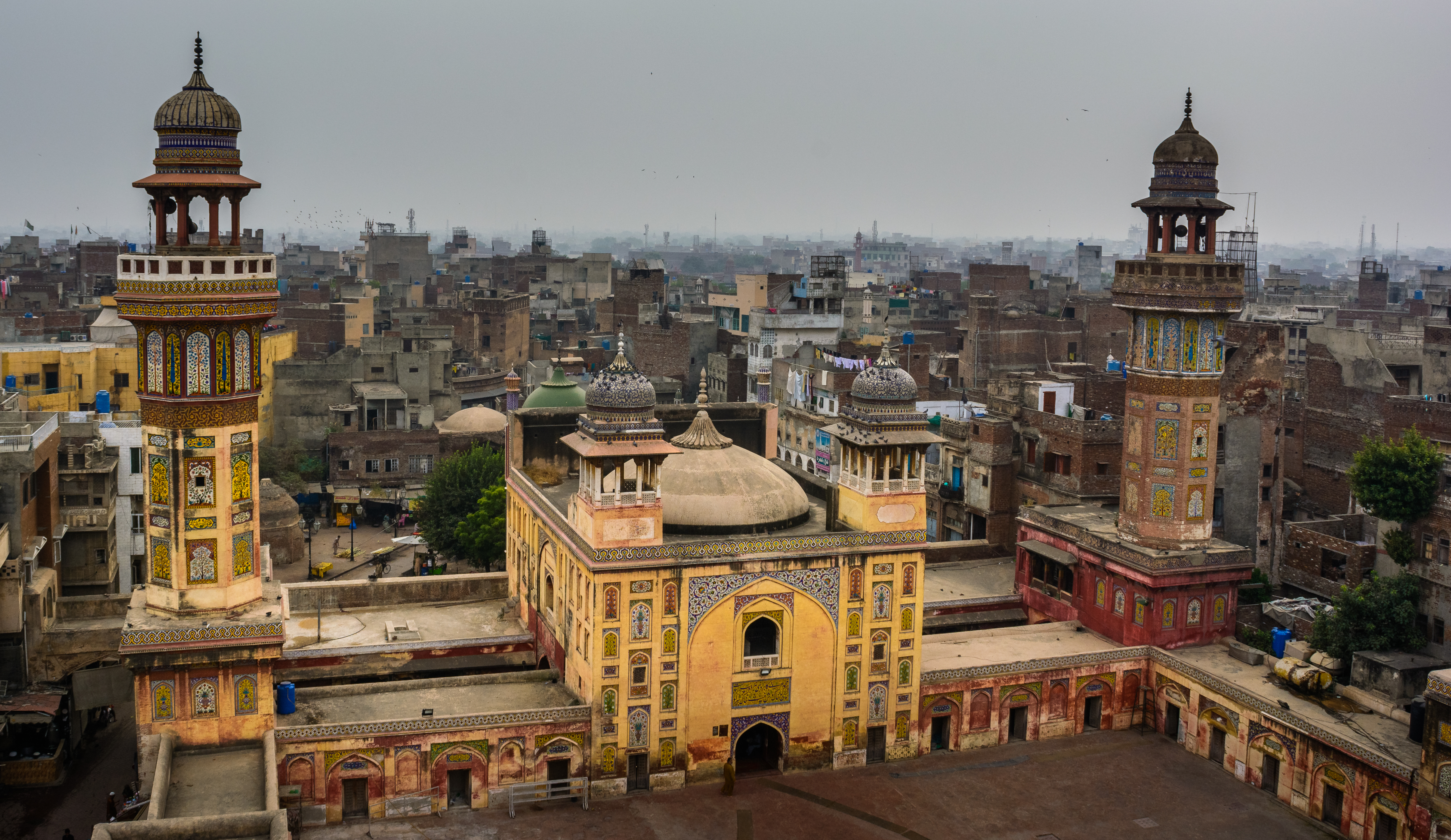 Wazir Khan Mosque This is a photo of a monument in Pakistan identified as the PB-100